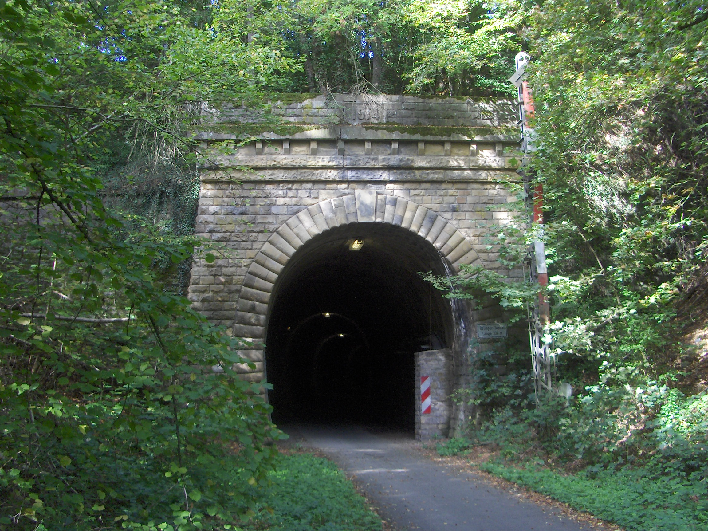 The southern entrance of the railroad tunnel at Ralingen, Germany. The railroad was dismanteled in 1968, today it is part of the Sauertal bikeway.